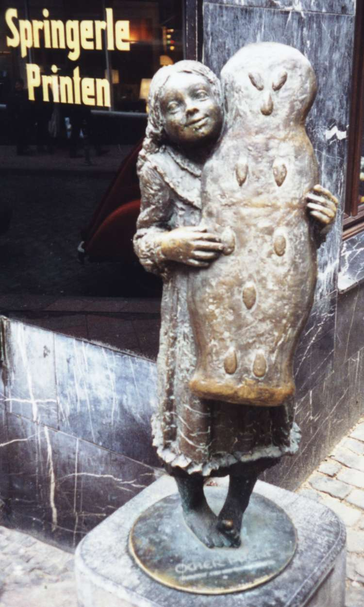 Printen-Monument, (Printen are a gingerbread specialty of Aachen), made by Hubert Löhneke, at the corner of Körbergasse and Büchel, Aachen, 1984, donated by Leo van den Daele, remembered as the "Printen Baron" with his Café and his former backery